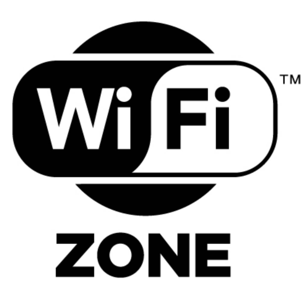 Wifi Area